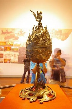 The replica of the incense burner of Baekje kingdom held at National Museum of Korea